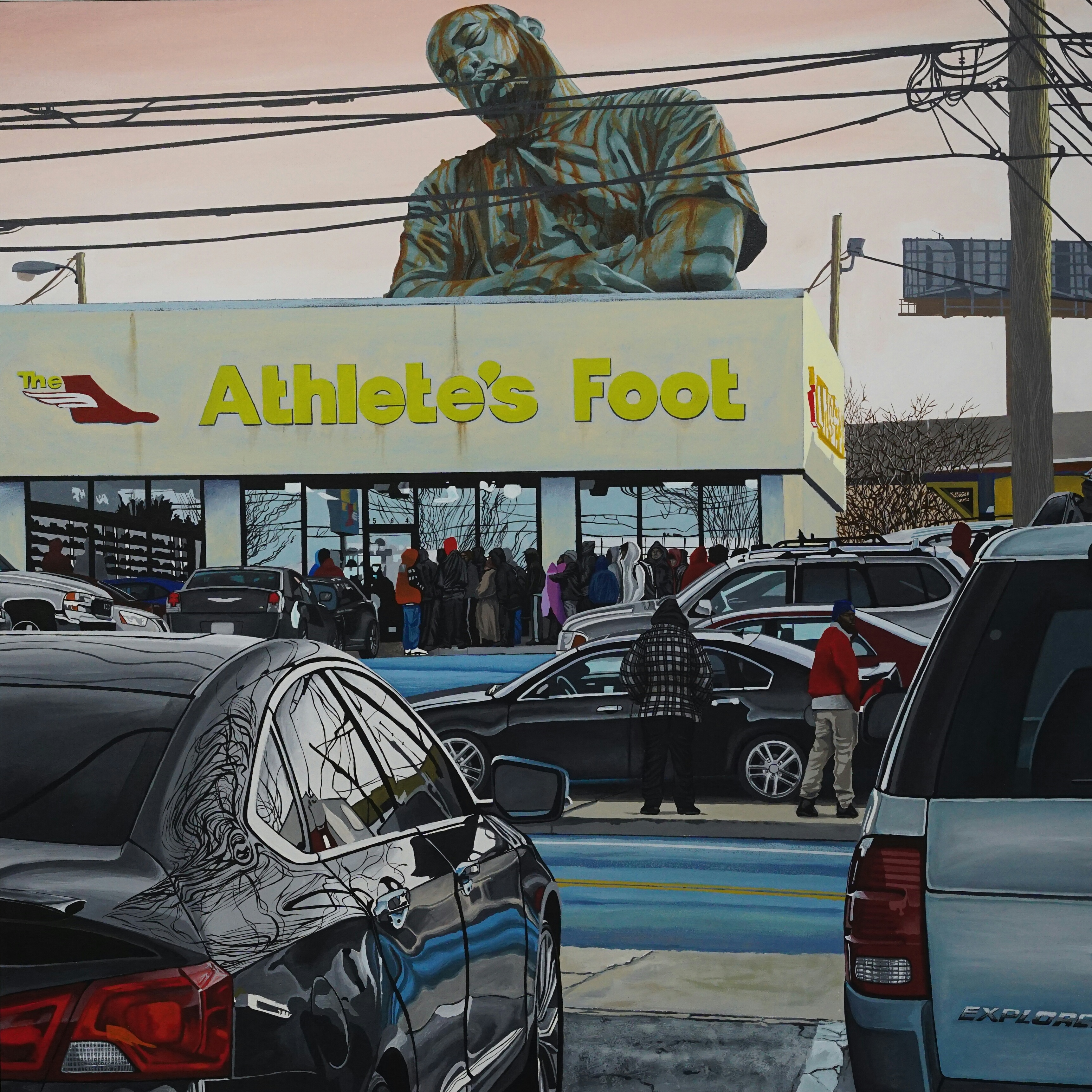 Acrylic Painting